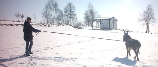 onotherapy